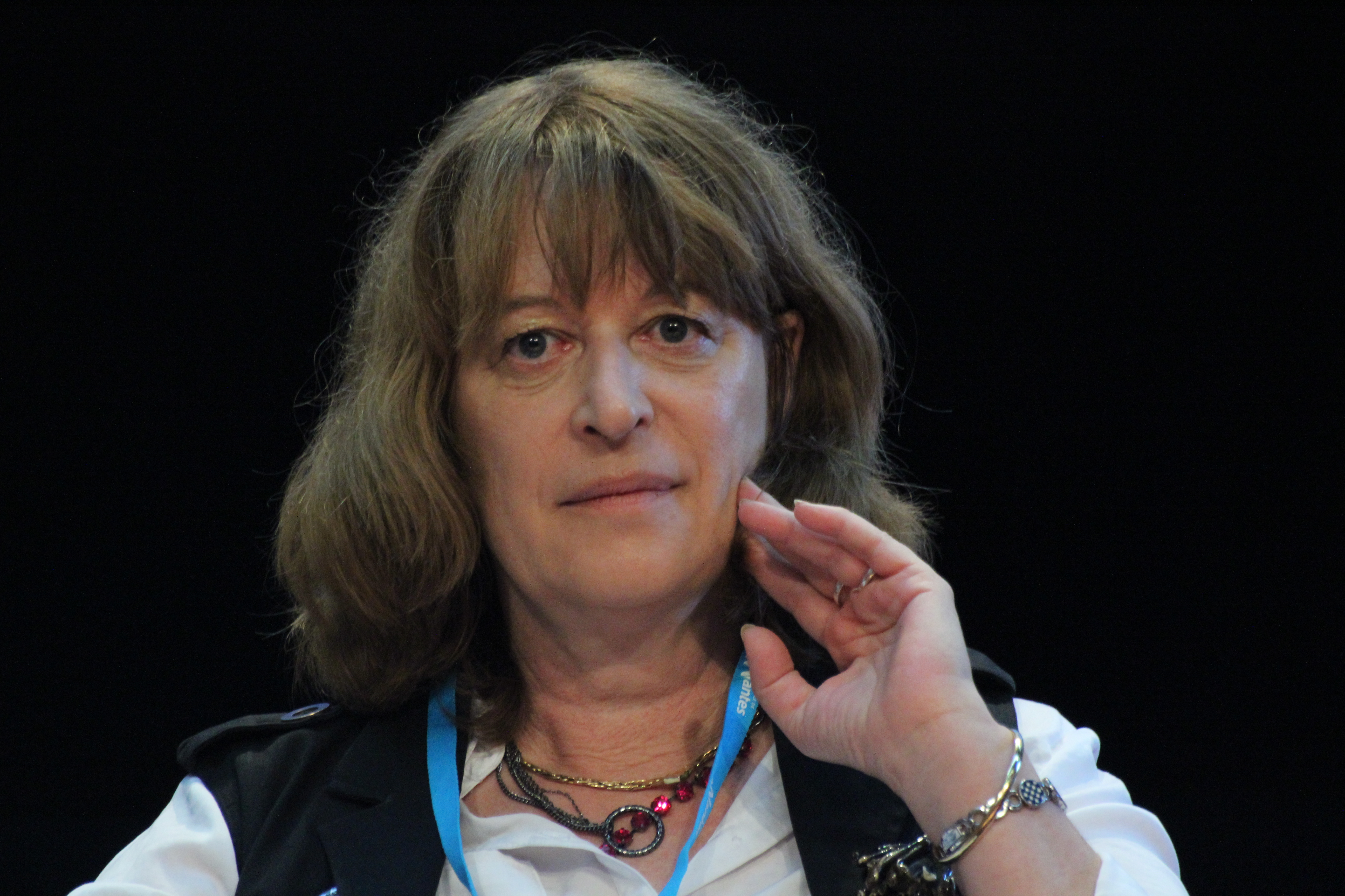 Sylvie Lainé at the Utopiales 2014 in Nantes, France.